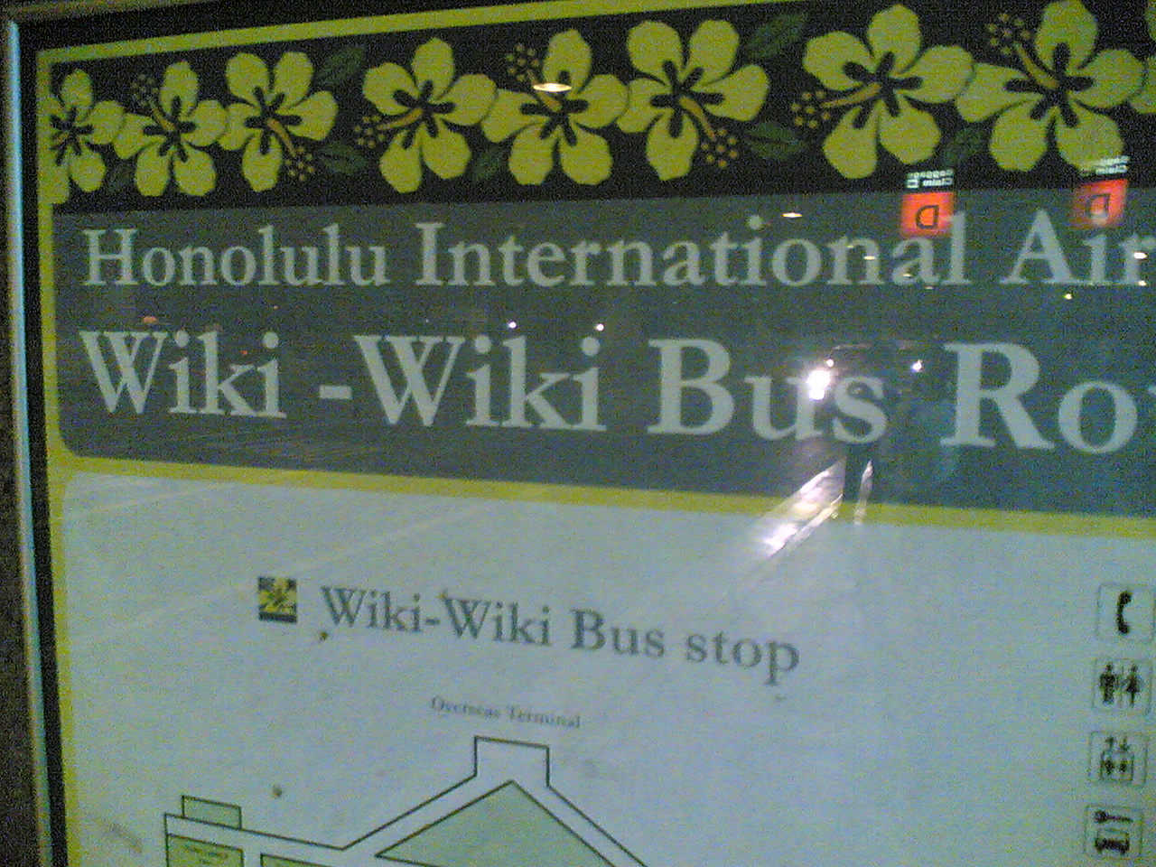 "Wiki-Wiki Bus stop" sign at Honolulu International Airport, Hawaii